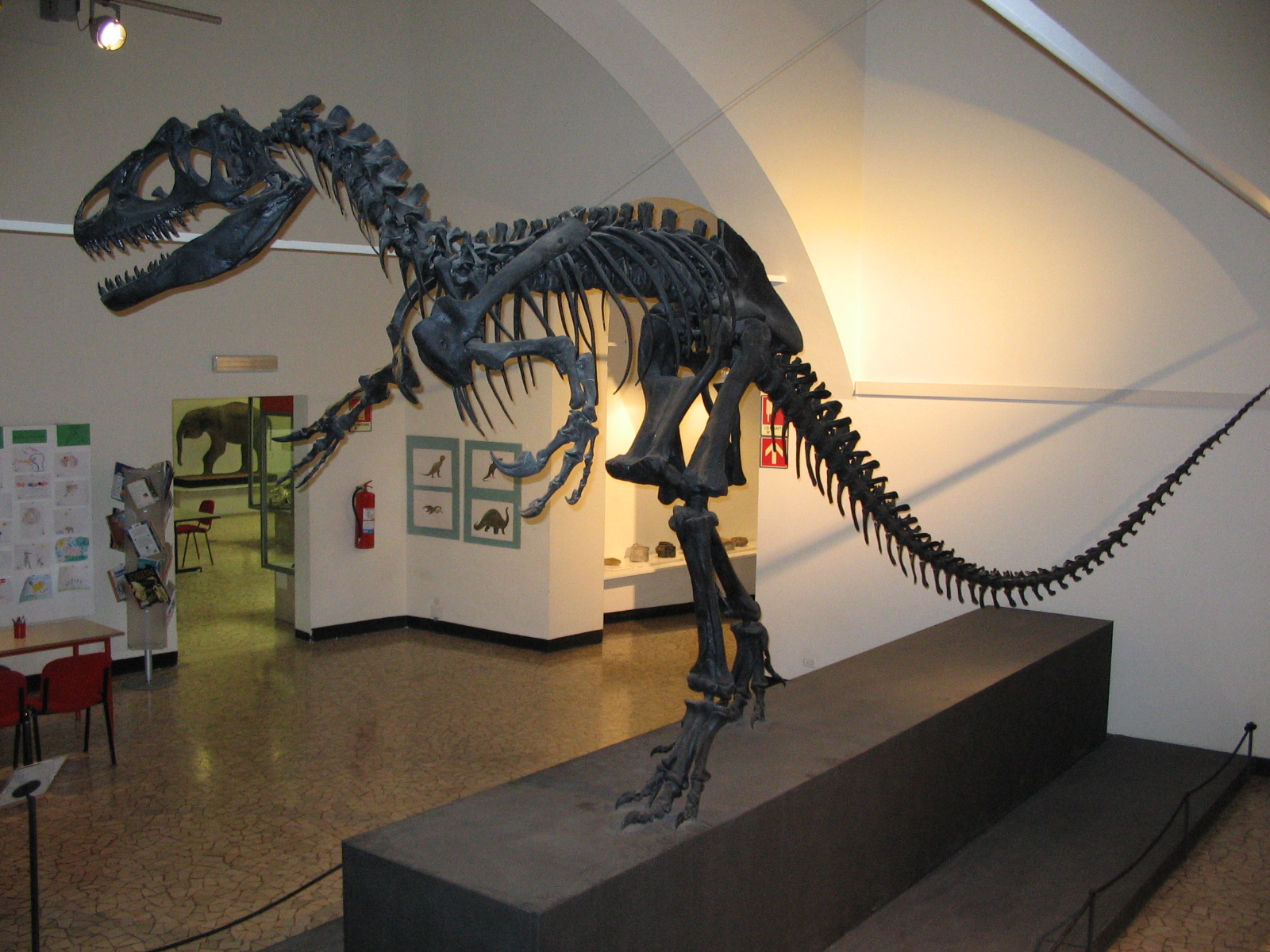 Museum of Natural Science of Bergamo. Allosaurus fragilis skeleton from Utah, USA, built up by the museum employees in 1995 and shown in the dinosaur room.